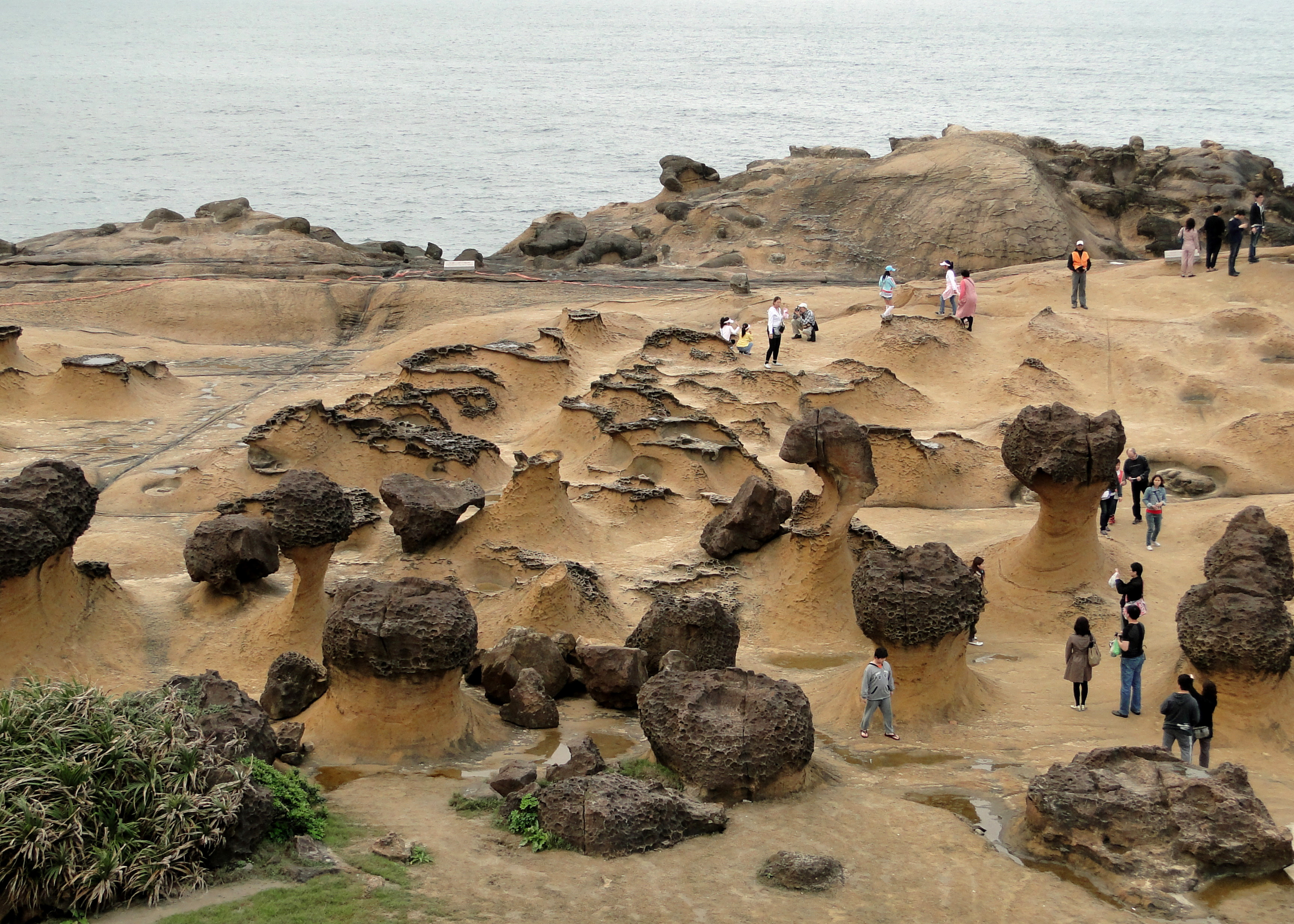 The Mushroom Rock in Yehliu Geopark, on the north coast of Taiwan